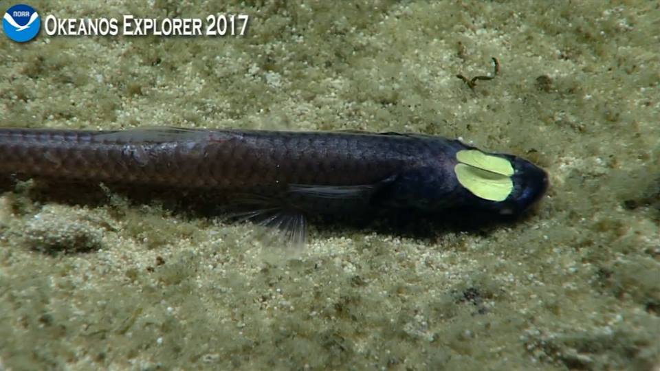 A deep-sea fish (Ipnops sp.), observed in the abyss by NOAA mission Okeanos Explorer off Samoa islands in 2017.